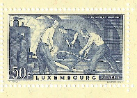 A semi-postal stamp of Luxembourg, from a souvenir sheet only, Michel # LU 412. Dedicated to the 1946 National Stamp Exhibition in Dudelange. Issued on: 1946-07-28. Perforation: frame 11½. Printing: Recess. Face value: 50+5 fr. - Luxembourgish franc. Designer: Courvoisier S.A. Old rolling mill, Dudelange (after Auguste Tremont, "Steelworkers"). See more details at (souvenir sheet) and (stamp).